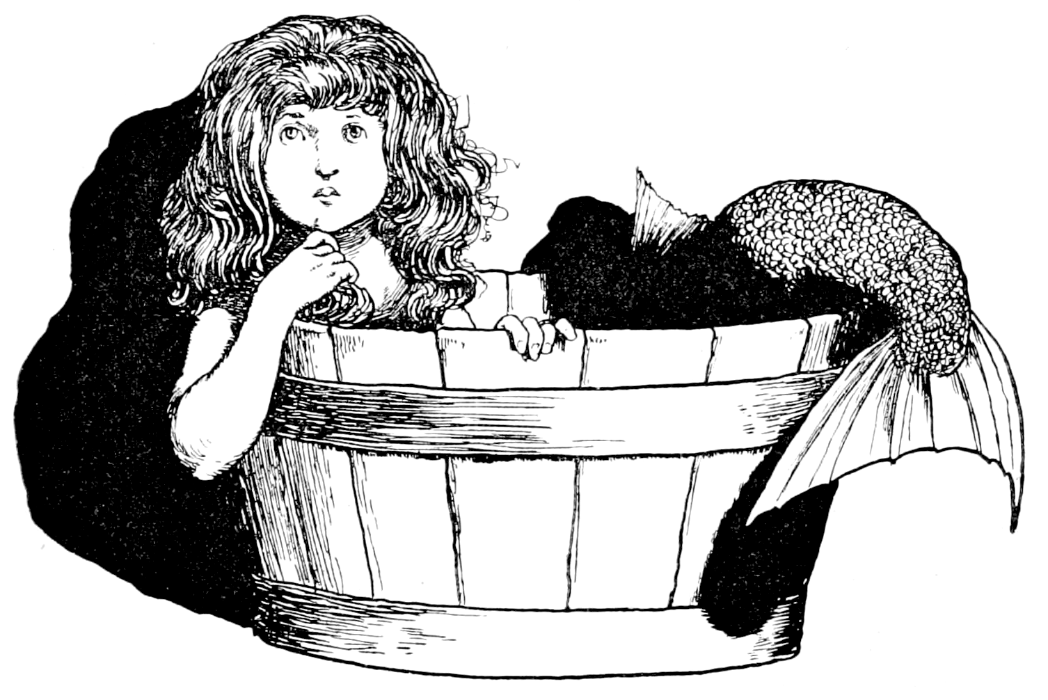 Black and white illustration in Hans Andersen's fairy tales (1913) London: Constable.